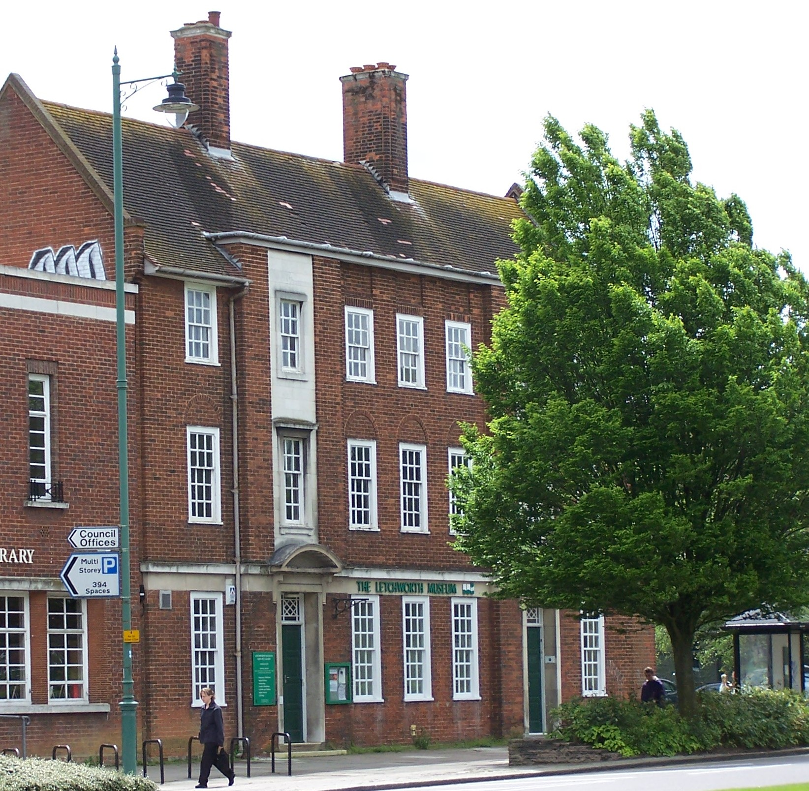 Letchworth Museum and Art Gallery, Broadway, Letchworth Garden City; a building designed by Barry Parker in 1914, extended in 1920 and again, to a design by C M Crickmer, in 1963-4